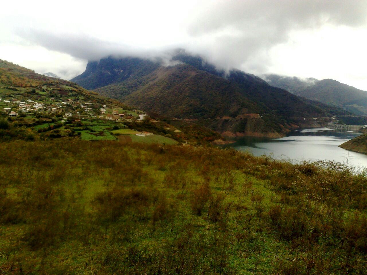 Shahid Rajaei Dam, Soleiman Tangeh